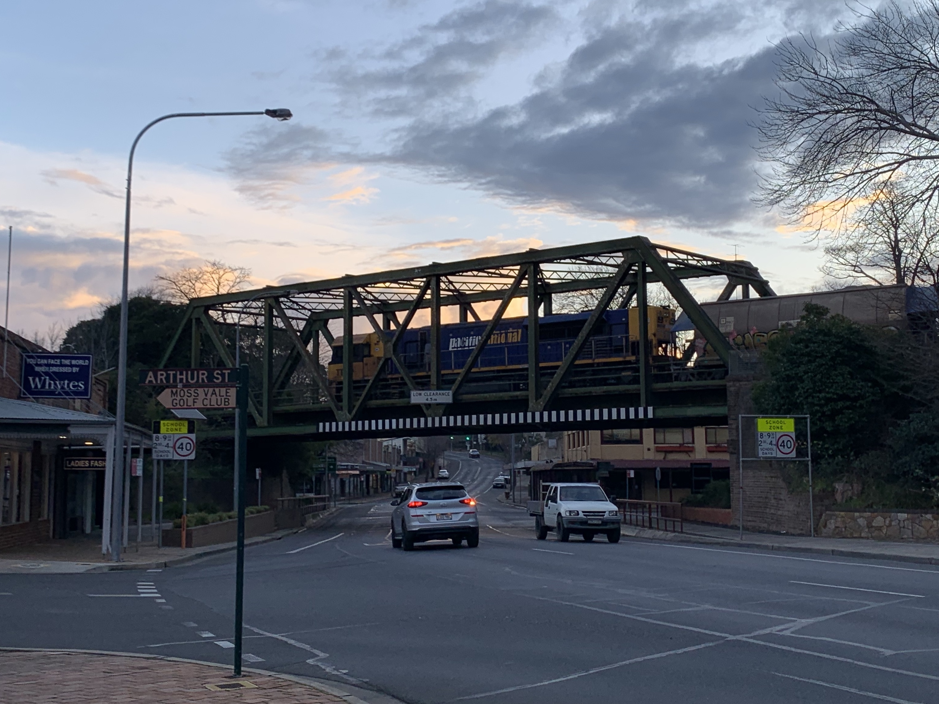 Argyle Street railway bridge, Moss Vale. Photo taken on the corner of Arthur and Argyle Street.